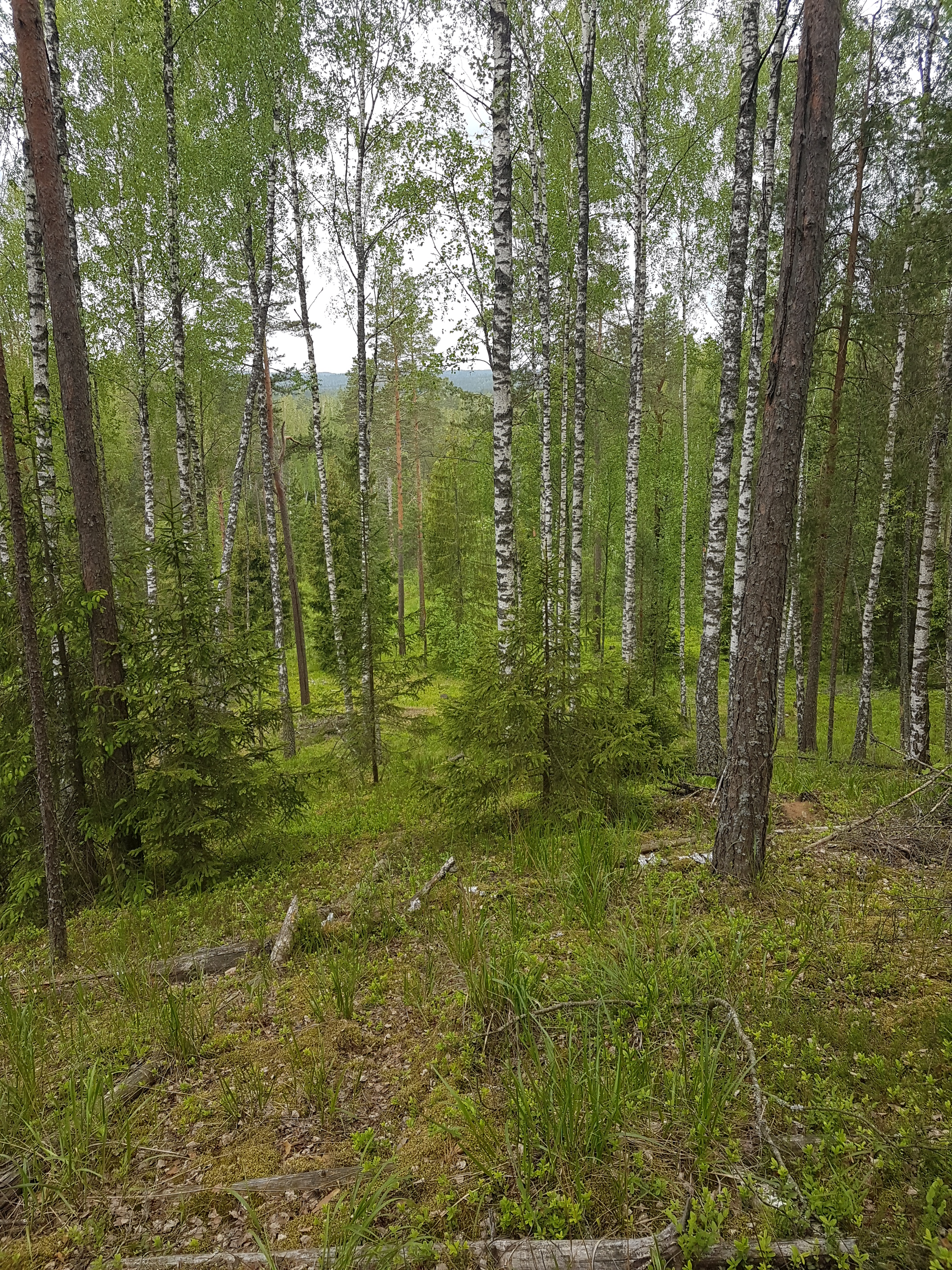 «Bielaja Ruś» landscape reserve